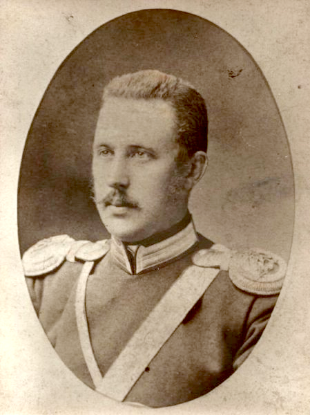 general Zygmunt Łempicki